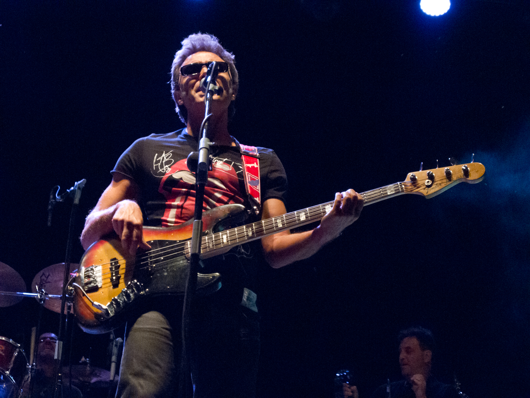 Burning performing live in 2012.